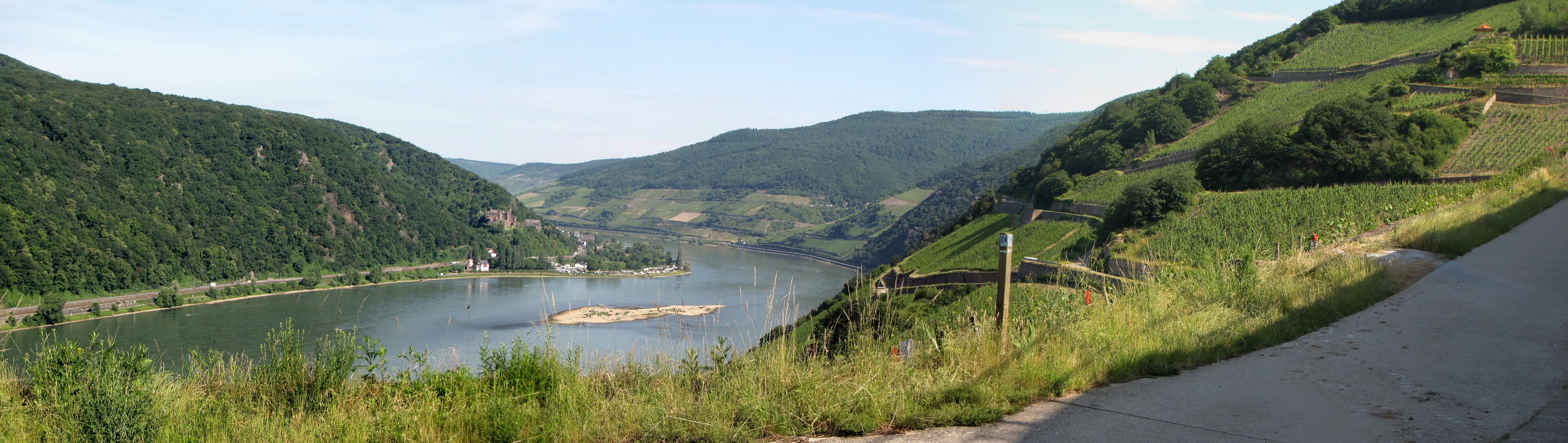 Rhine north of Assmannshausen